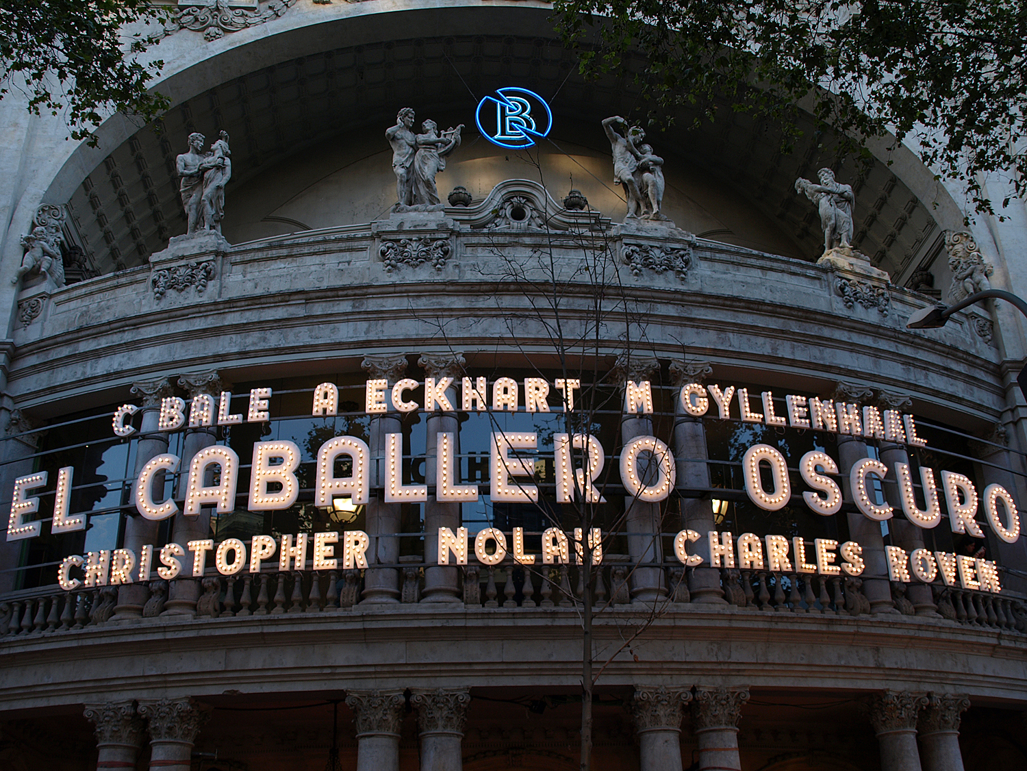 The Dark Knight, pre-release of the film at the cinema Colisevm (Barcelona, Spain)